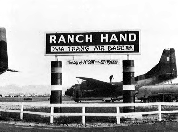 The "Ranch Hand" sign at Nha Trang Air Base, Vietnam, with a Fairchild C-123B Provider in the background. Note the additional sign "Courtesy of 14th SOW and 62nd Wg VNAF".